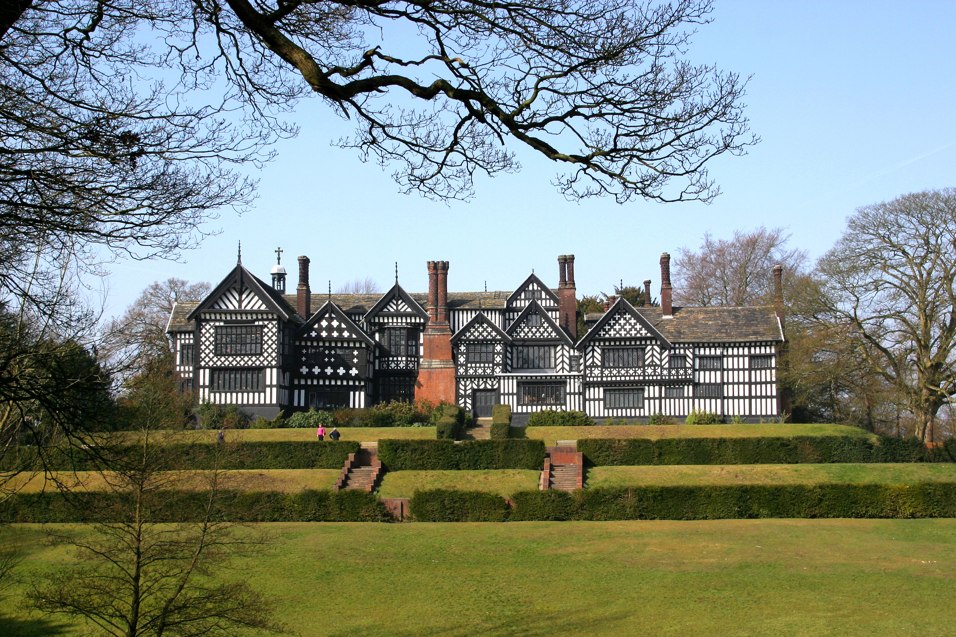 Bramall Hall seen from the south east